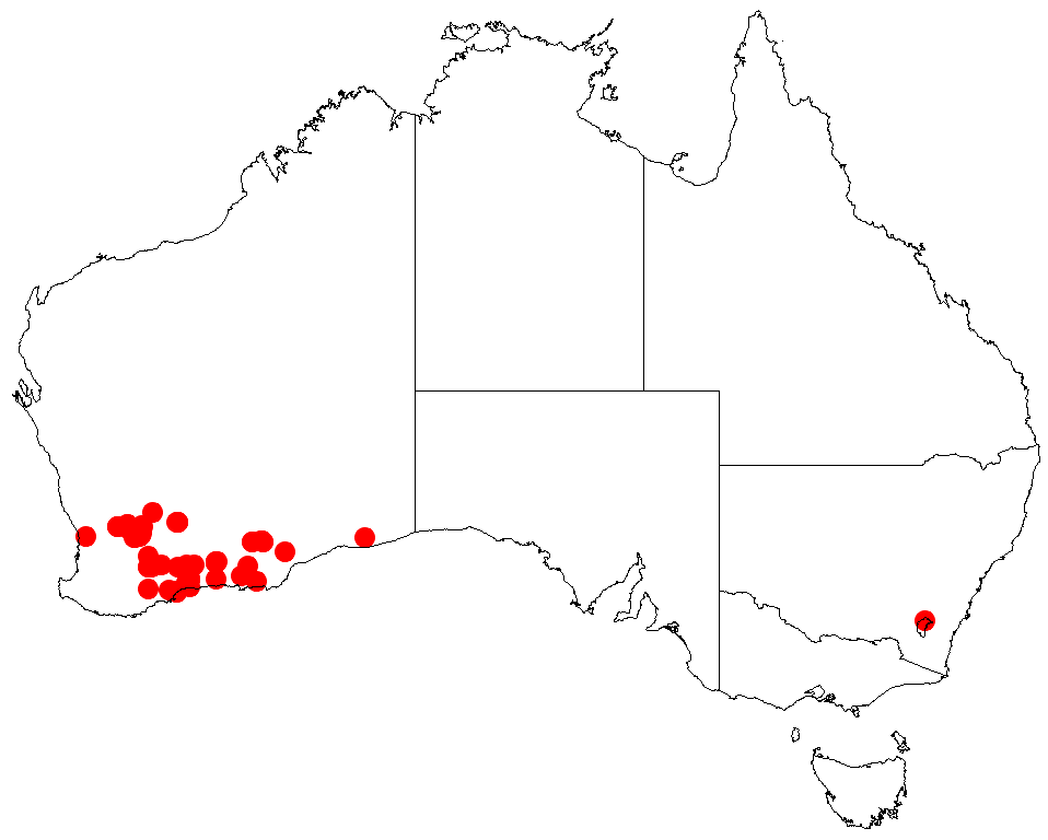 Acacia verricula occurrence data from Australasia Virtual Herbarium downloaded from on 8 December 2018